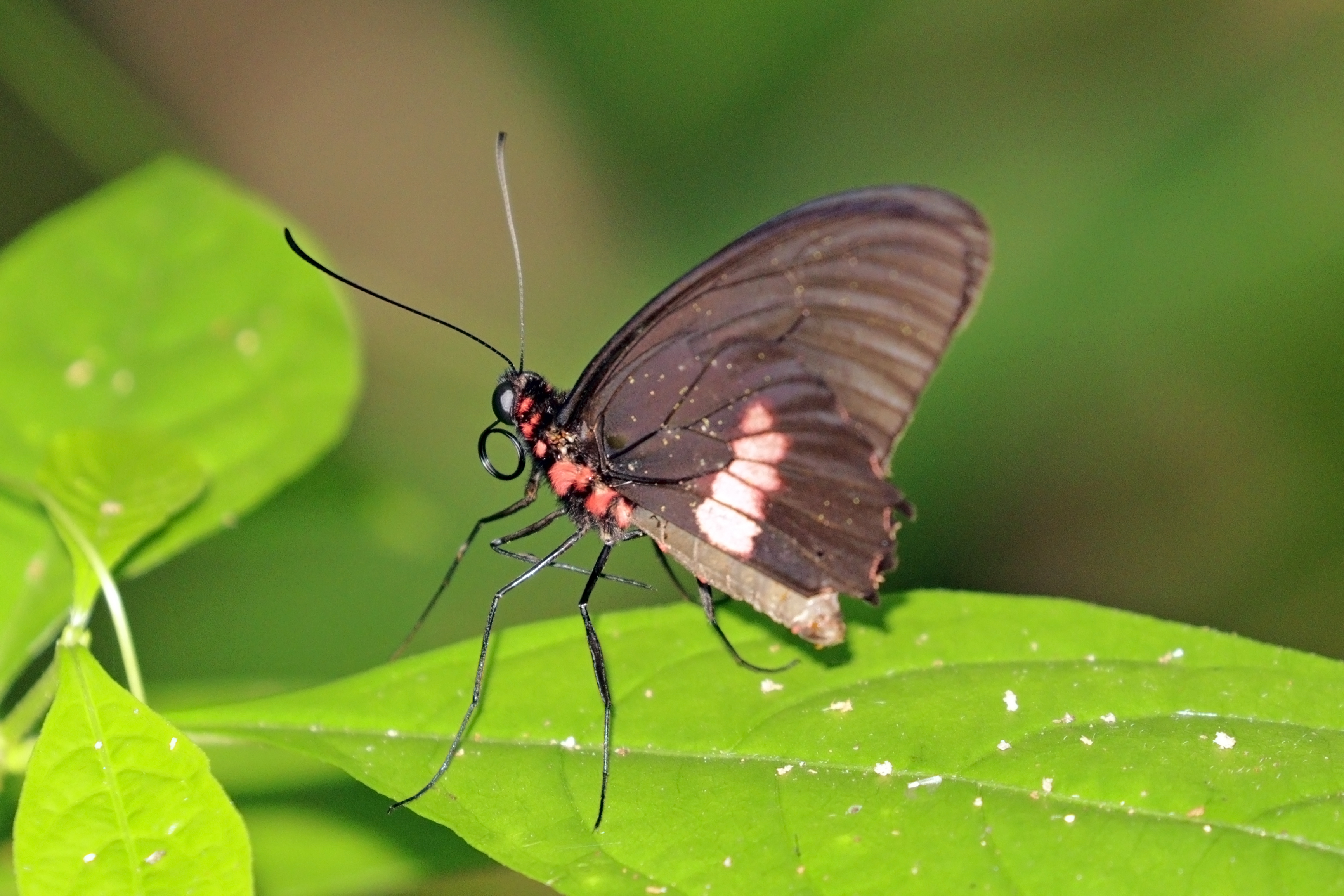 True cattleheart (Parides eurimedes mycale) male, Soberania National Park, Panama